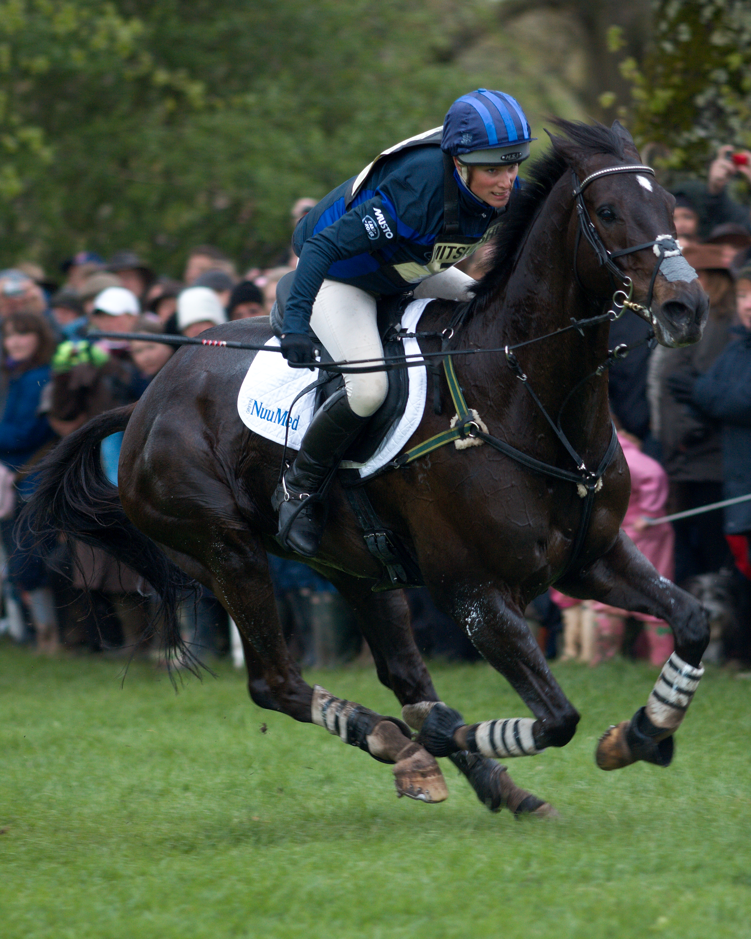 Zara Phillips and Glenbuck leaving the Countryside Complex during the cross-country phase of Badminton Horse Trials 2010.